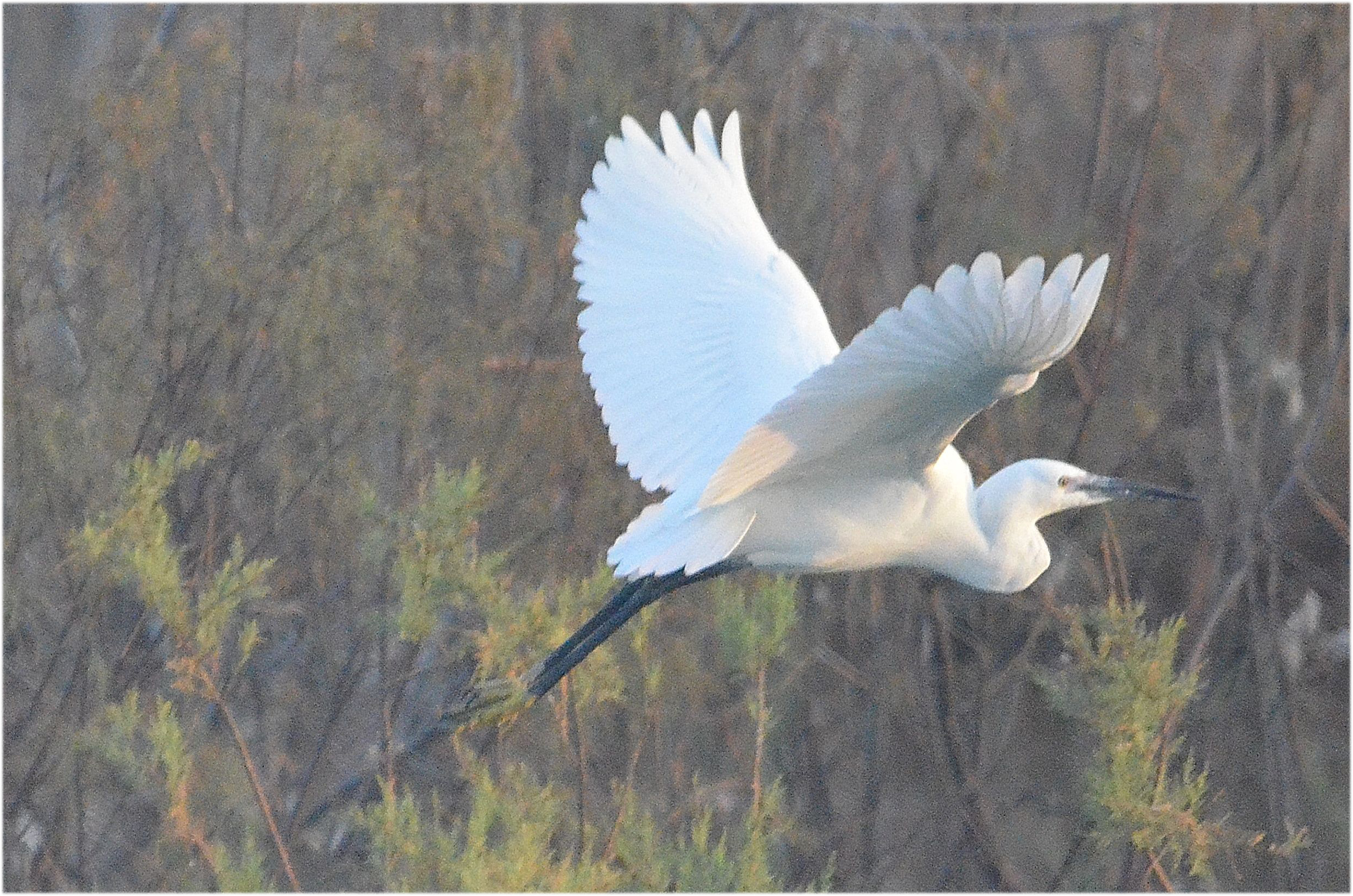 Little Egret